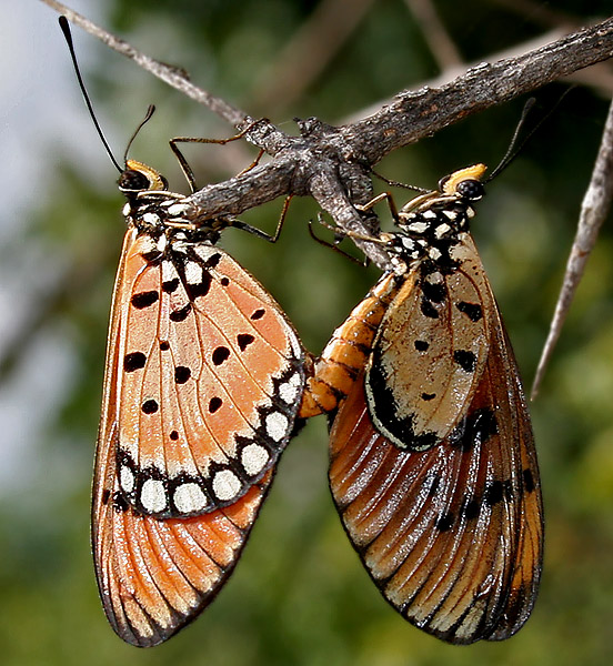 Tawny Coster Acraea terpsicore in Narsapur, Andhra Pradesh, India.